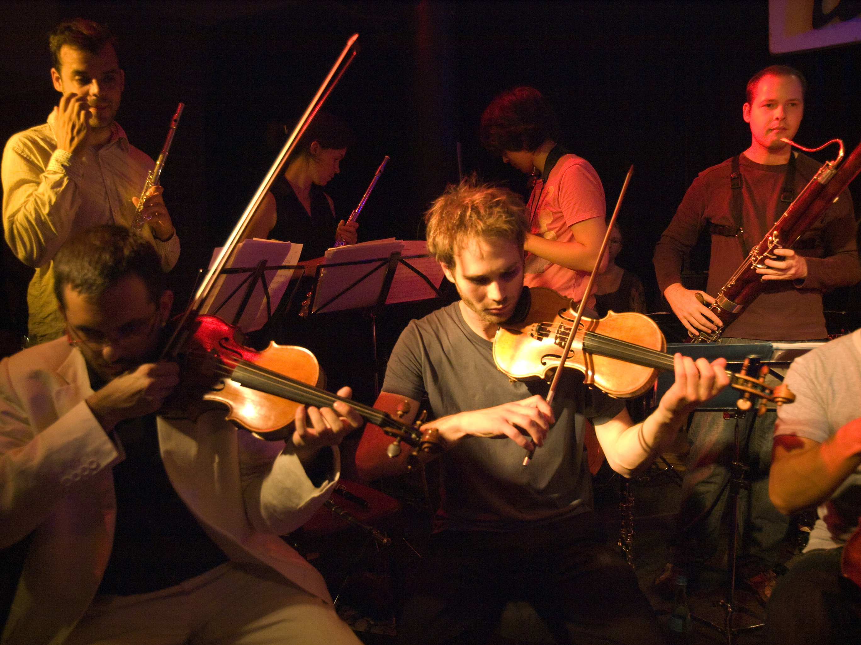 Andromeda Mega Express Orchestra; Picture taken in Jazz Club Unterfahrt, Munich/Bavaria